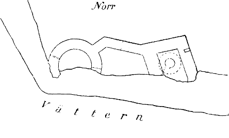 Schematic of the ruin of Näs castle on Visingsö, Sweden